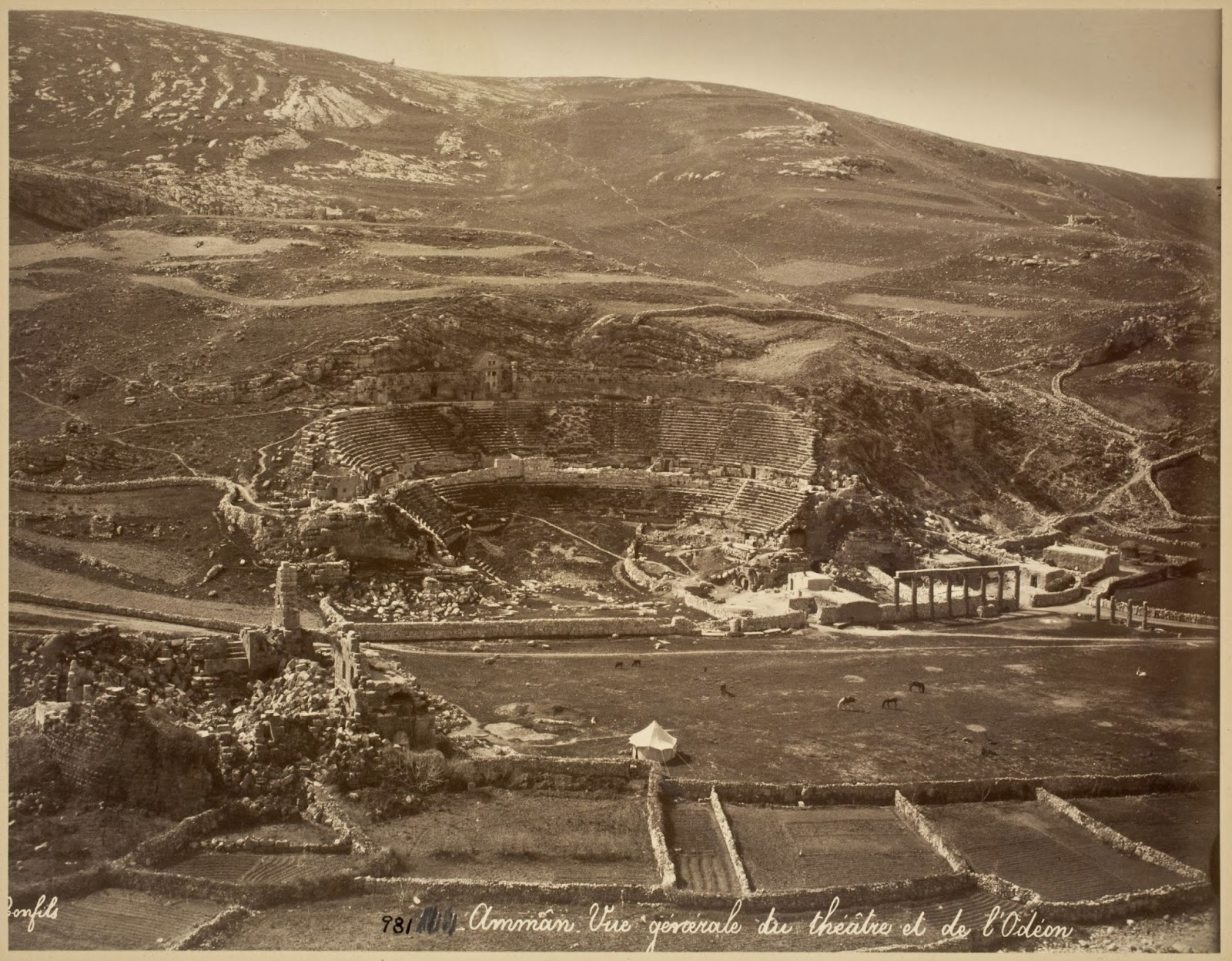 Amman, Vue générale du théâtre et de l'Odeon